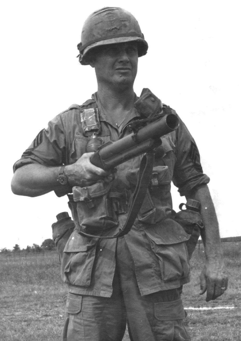 MSG Claude L. Yocum, HHC, 2nd Bn., 1st Inf., 196th Lt. Inf. Bde., Vietnam.